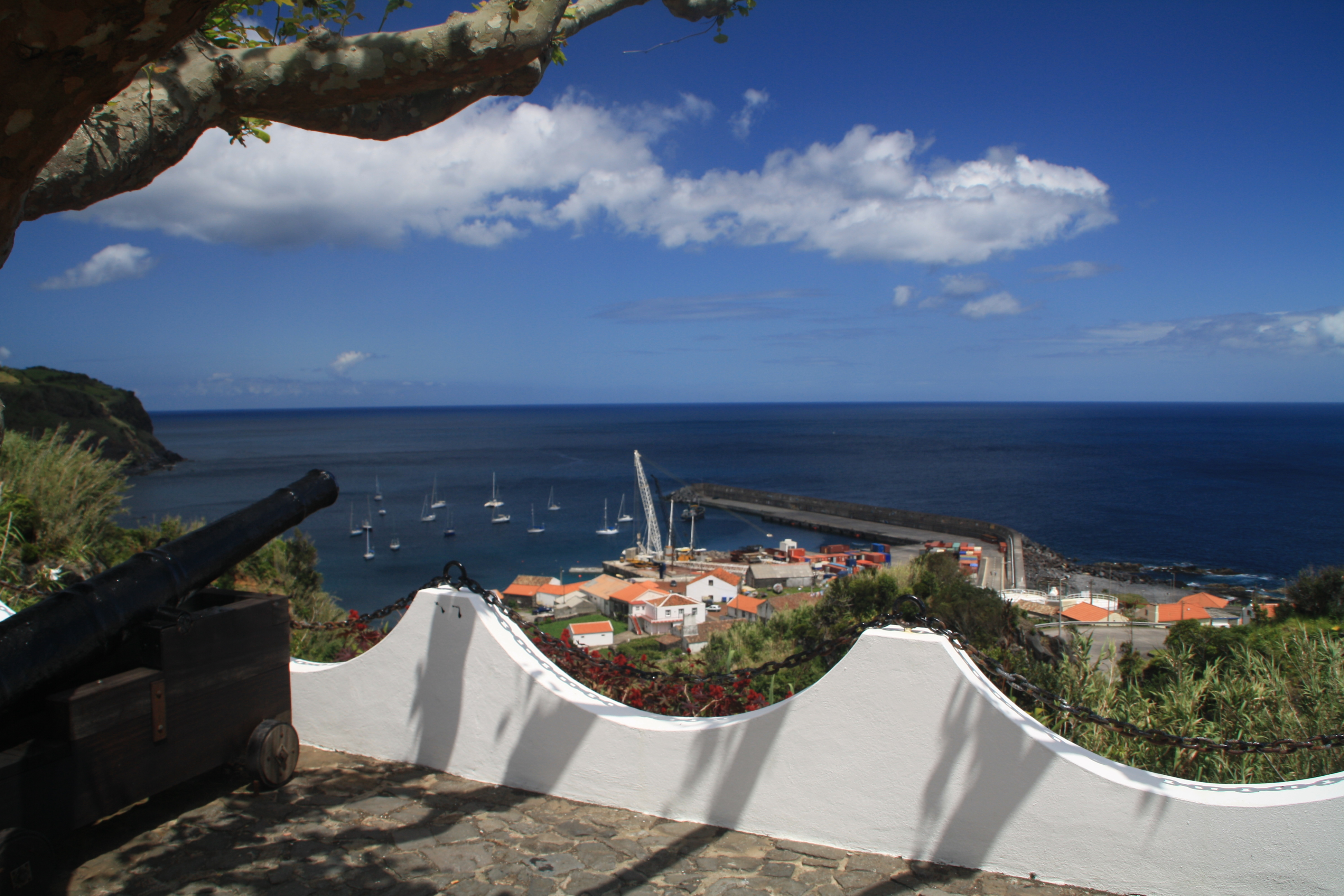 Azores, Flores, Lajes das Flores, Harbour